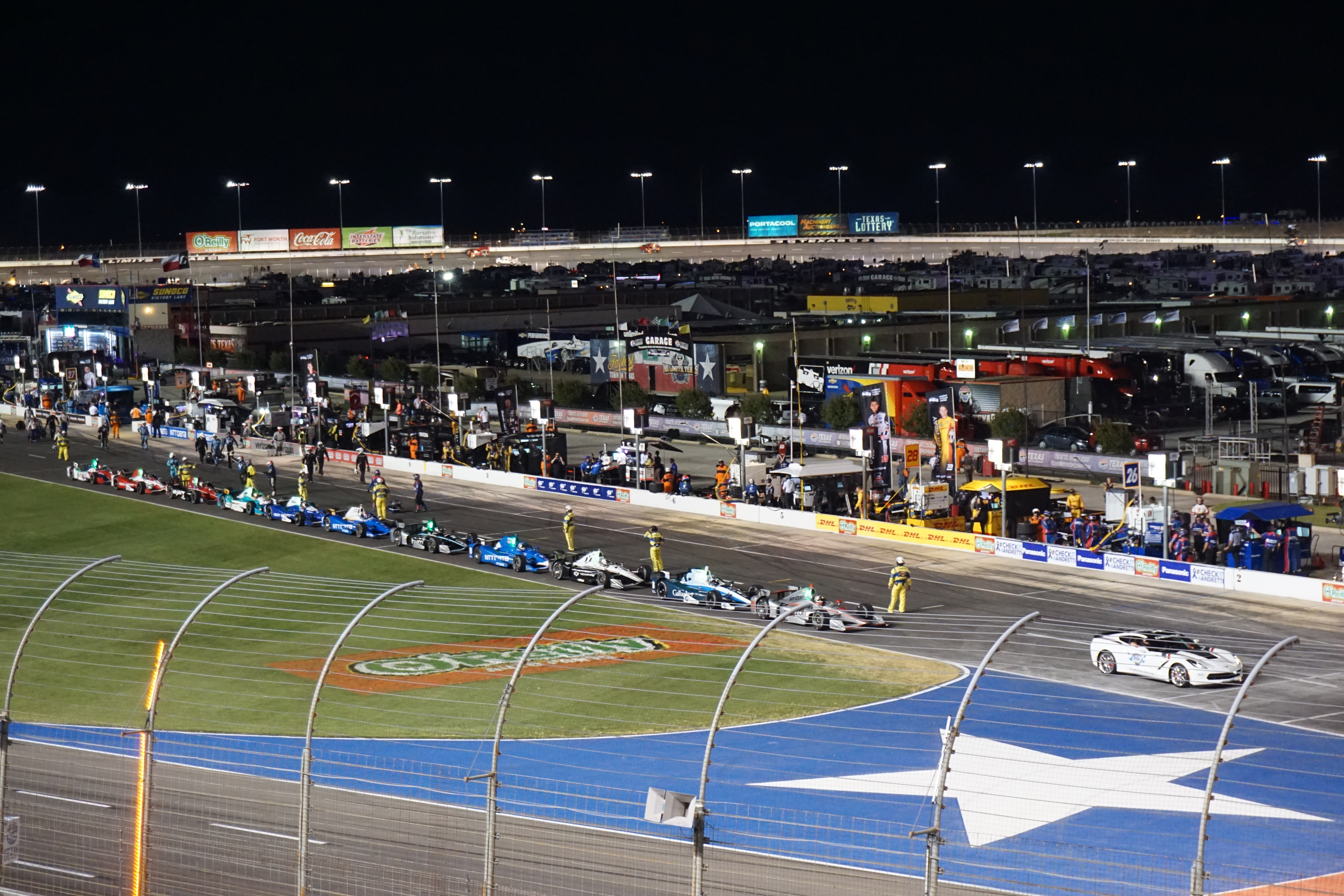 A red flag during the 2017 Rainguard Water Sealers 600 at Texas Motor Speedway in Fort Worth, Texas (United States).